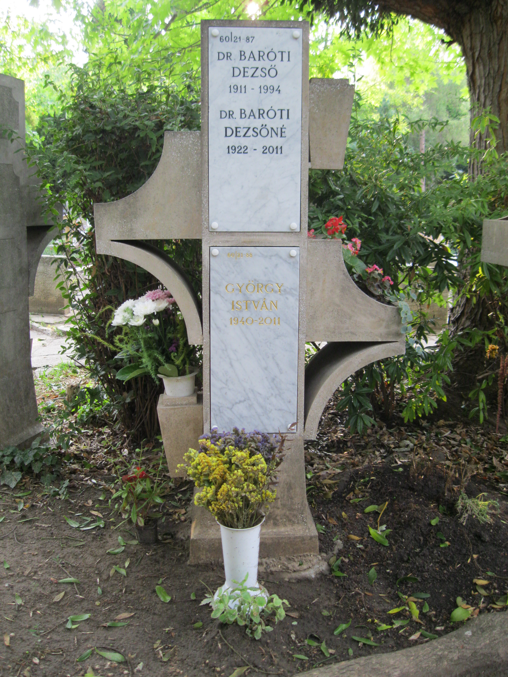 Urn tomb of Dezső Baróti in Farkasréti Cemetery [60/21-87]